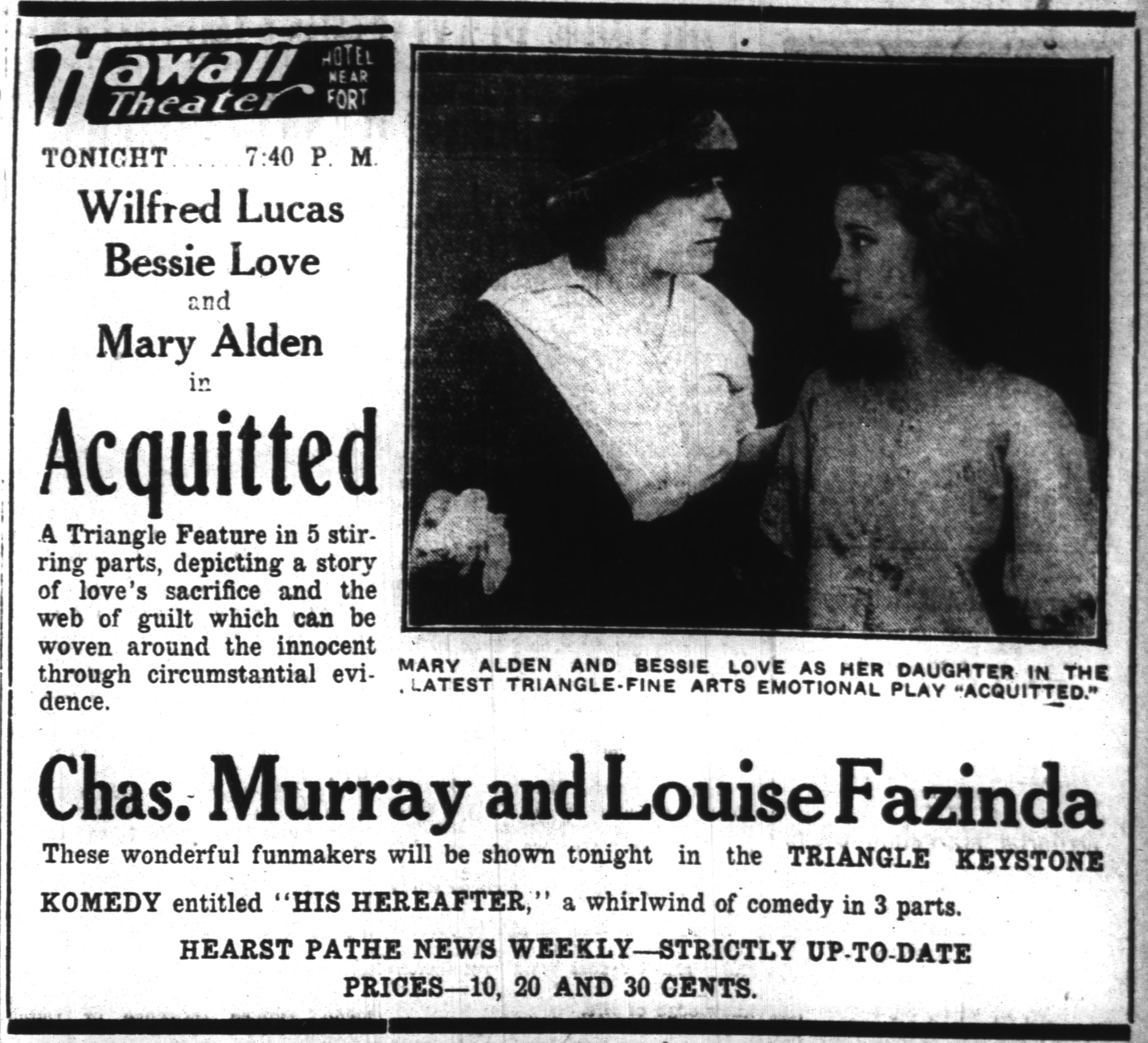 Acquitted is a 1916 silent film produced by the Fine Arts Films Company and distributed by Triangle Film Corporation. Newspaper advert.